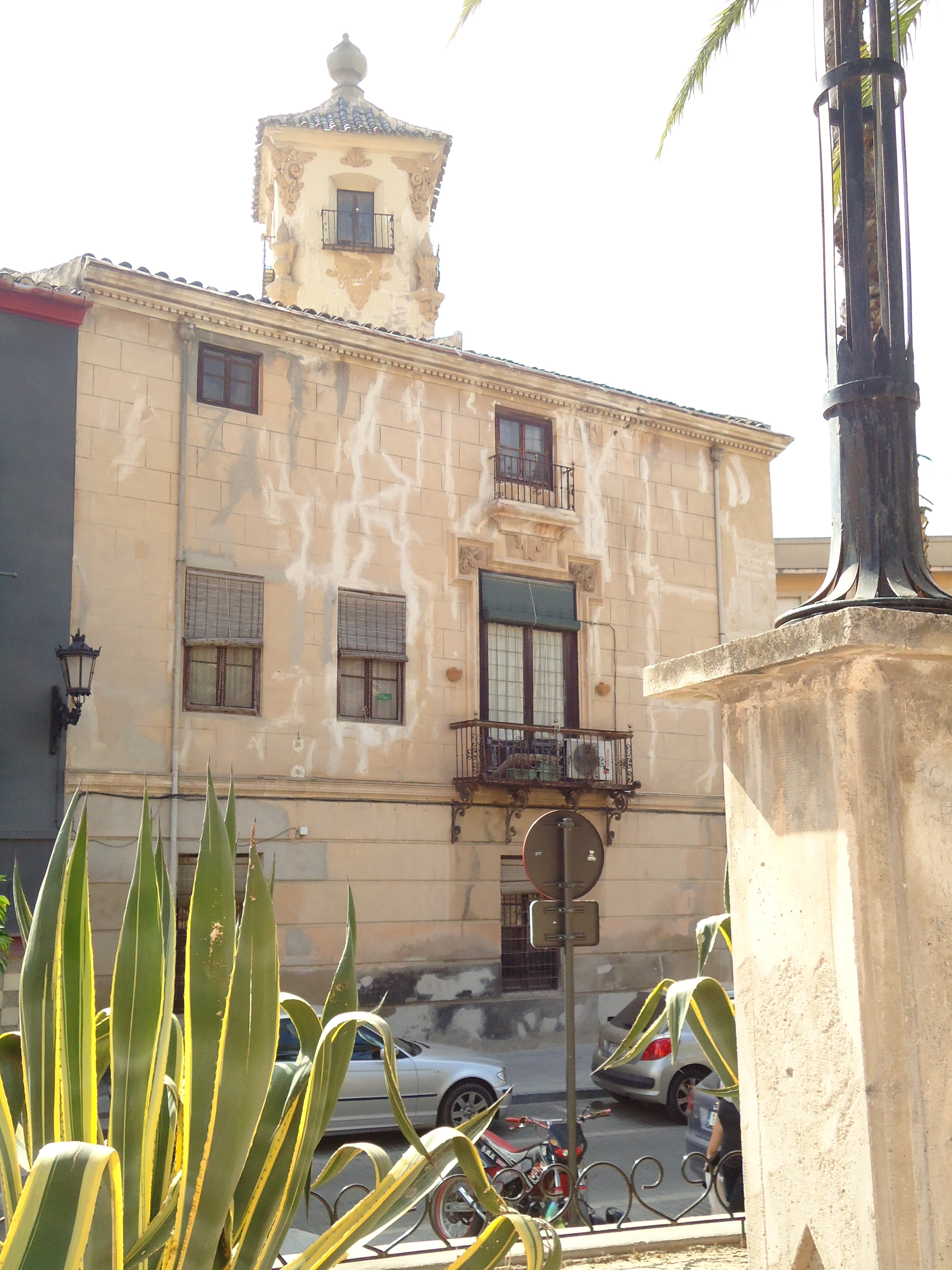 Façana lateral del palauet del Baró de la Linde, Oriola.